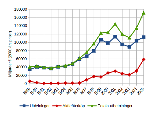 Cash dividends and share repurchases (stock buybacks) of listed industrial companies in 15 EU nations, 1989-2005. 2000 prices. Graph by uploading user, with data from: von Eije, Henk, Megginson, William L. (2008). ”Dividends and share repurchases in the European Union”. Journal of Financial Economics (Elsevier) 89 (2): pp. 347-374. ISSN 0304-405X.